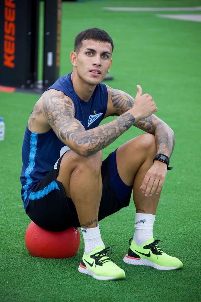 Leo Paredes in Katar, 2019